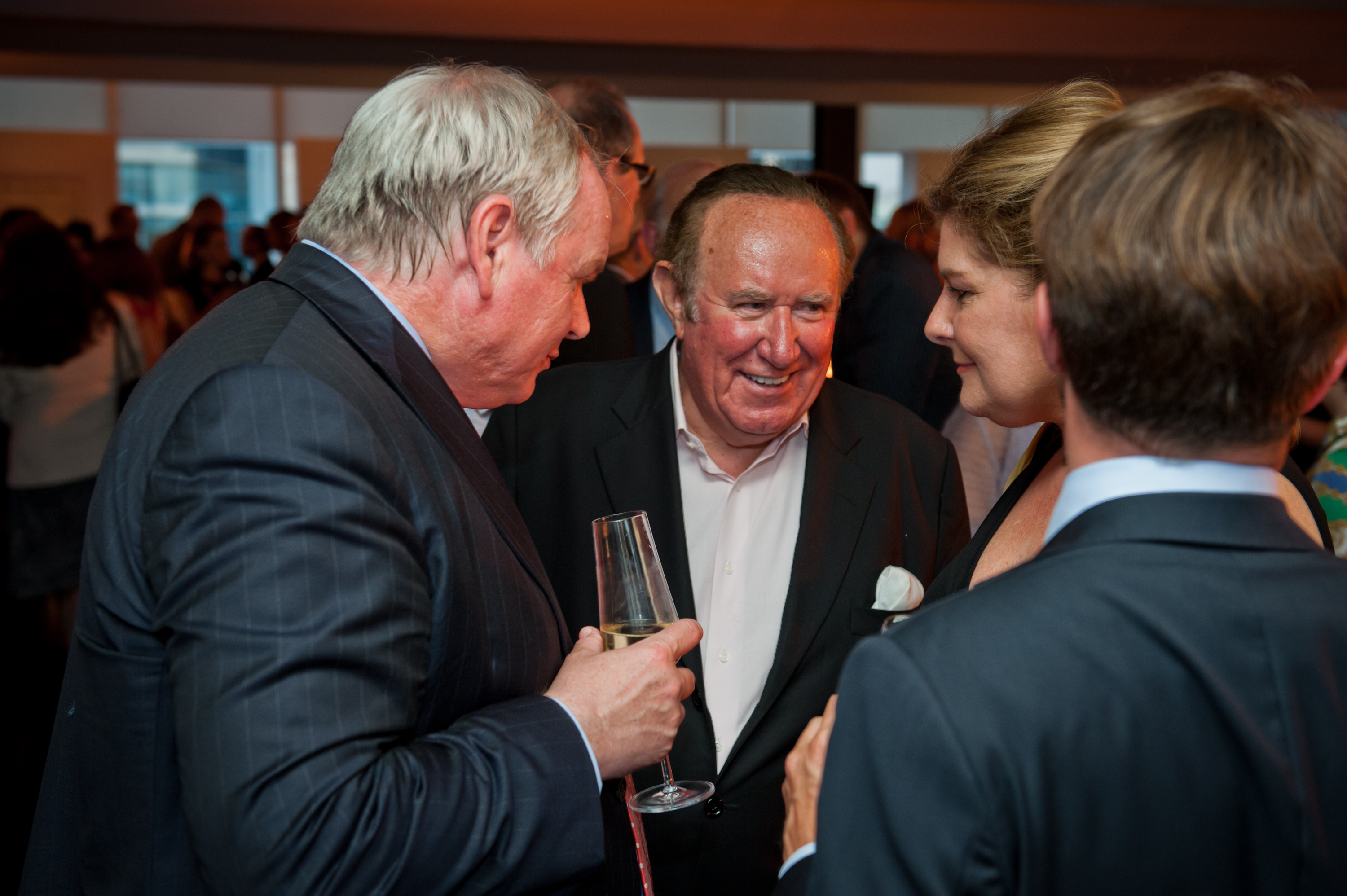 Adam Boulton Andrew Neil Benedicte Paviot